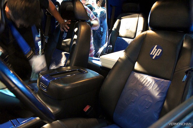 Inside of a car, looking backwards at the driver's and passenger's seats, designed by West Coast Customs for HP